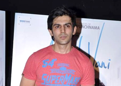 Kartik Tiwari at the trailer launch of Akaash Vani.